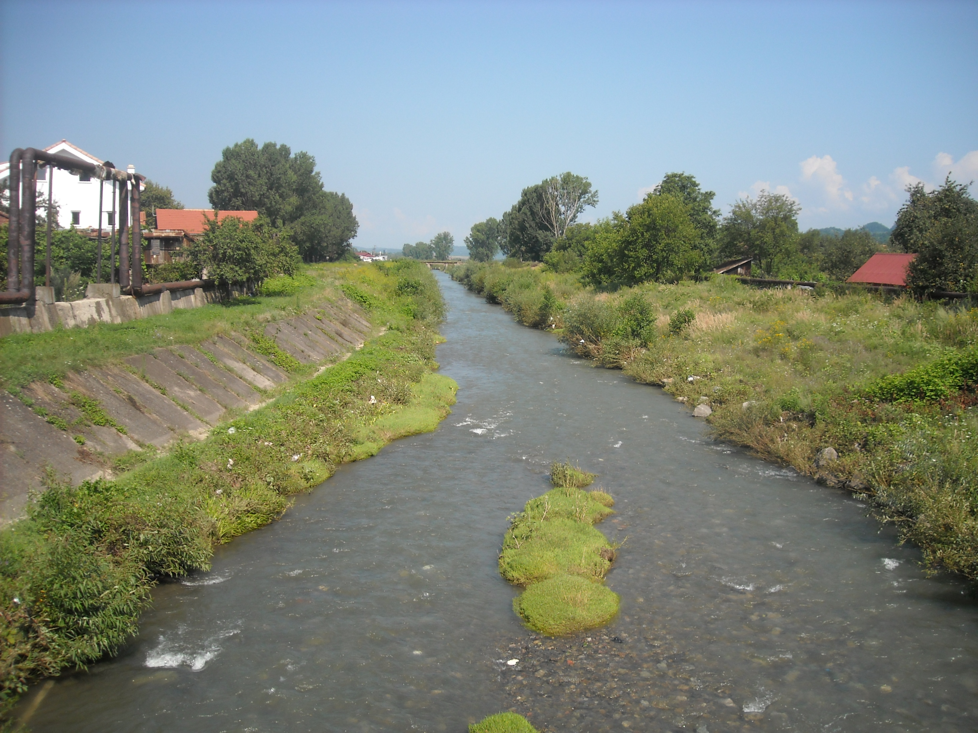 the Crişul Alb river at Brad, Romania